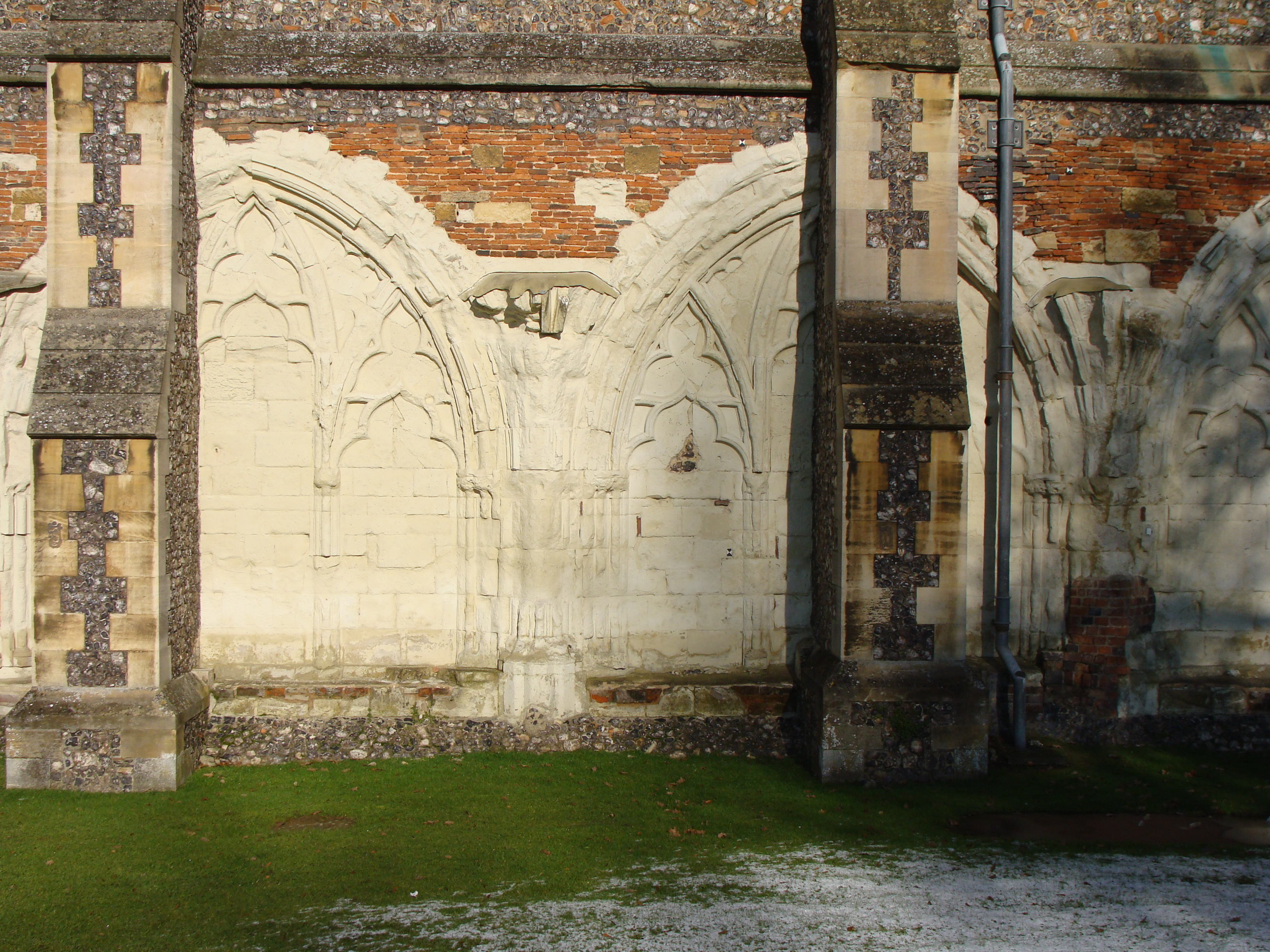 Remains of cloisters at St Albans cathedral, Hertfordshire, England.